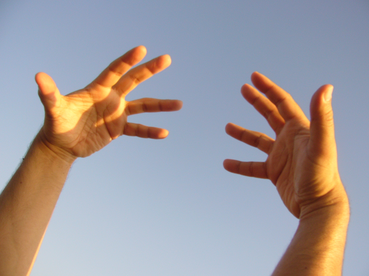 Manos humanas